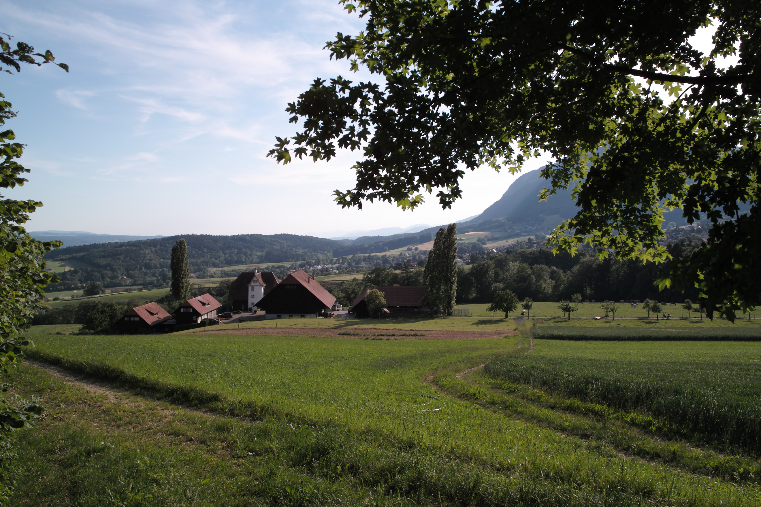 View from Kammersrohr (Mittlerer Mattenhof) towards Niederwil and Günsberg, canton of Solothurn, Switzerland.